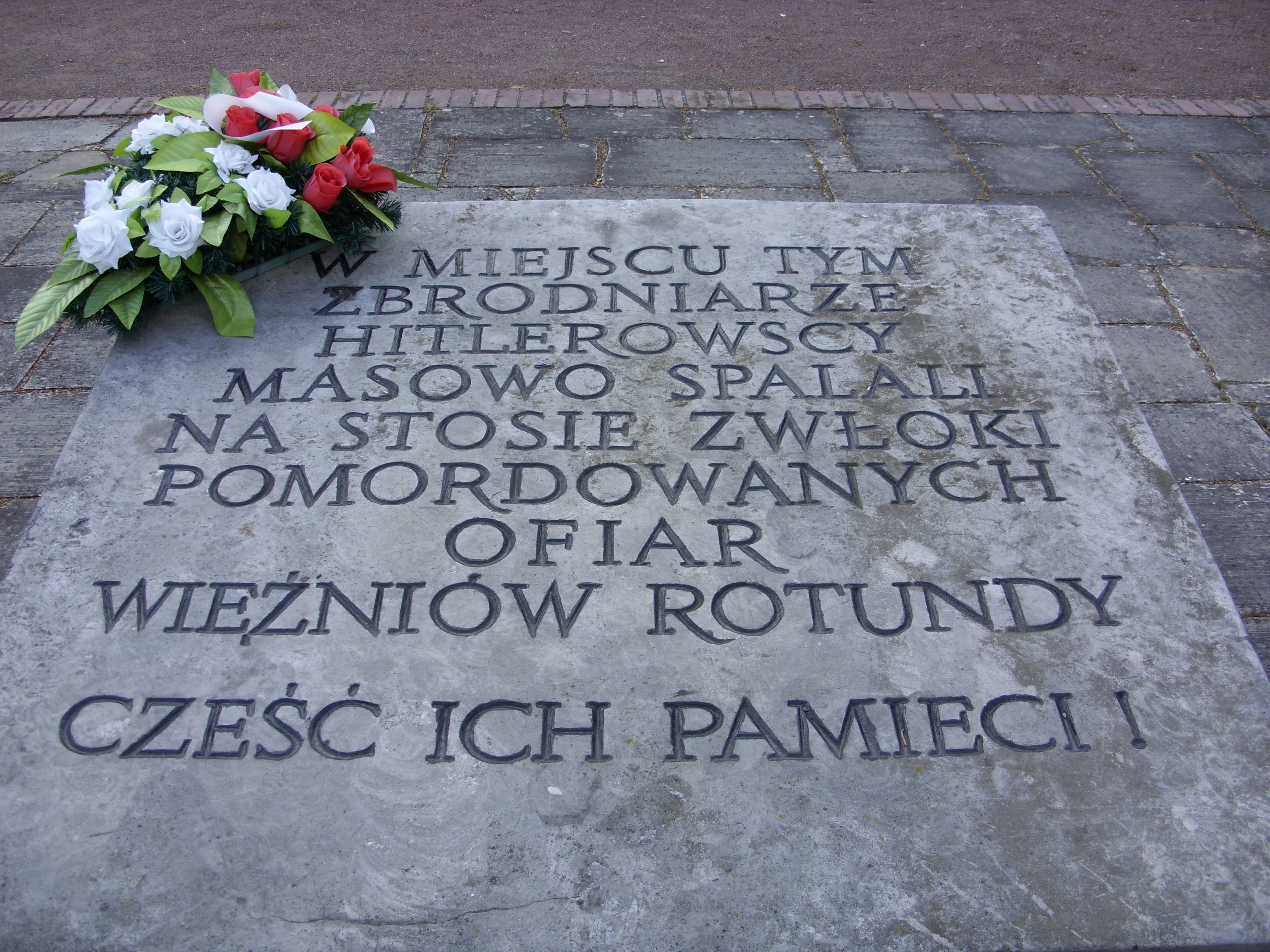 Plaque at the place where the bodies of the victims of the German Rotunda camp in Zamość were burned